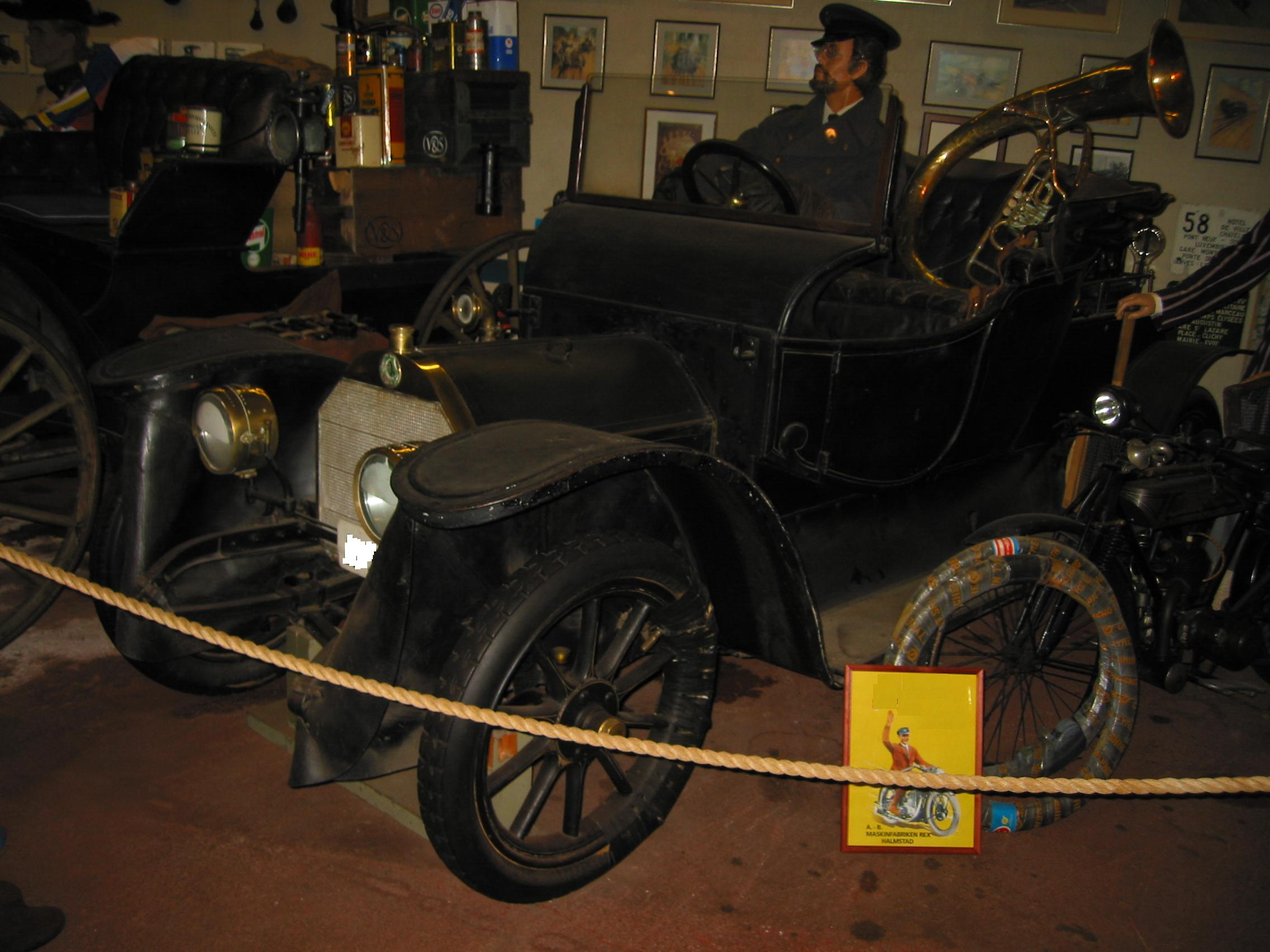 Motobloc 1909 (Country of origin: France)